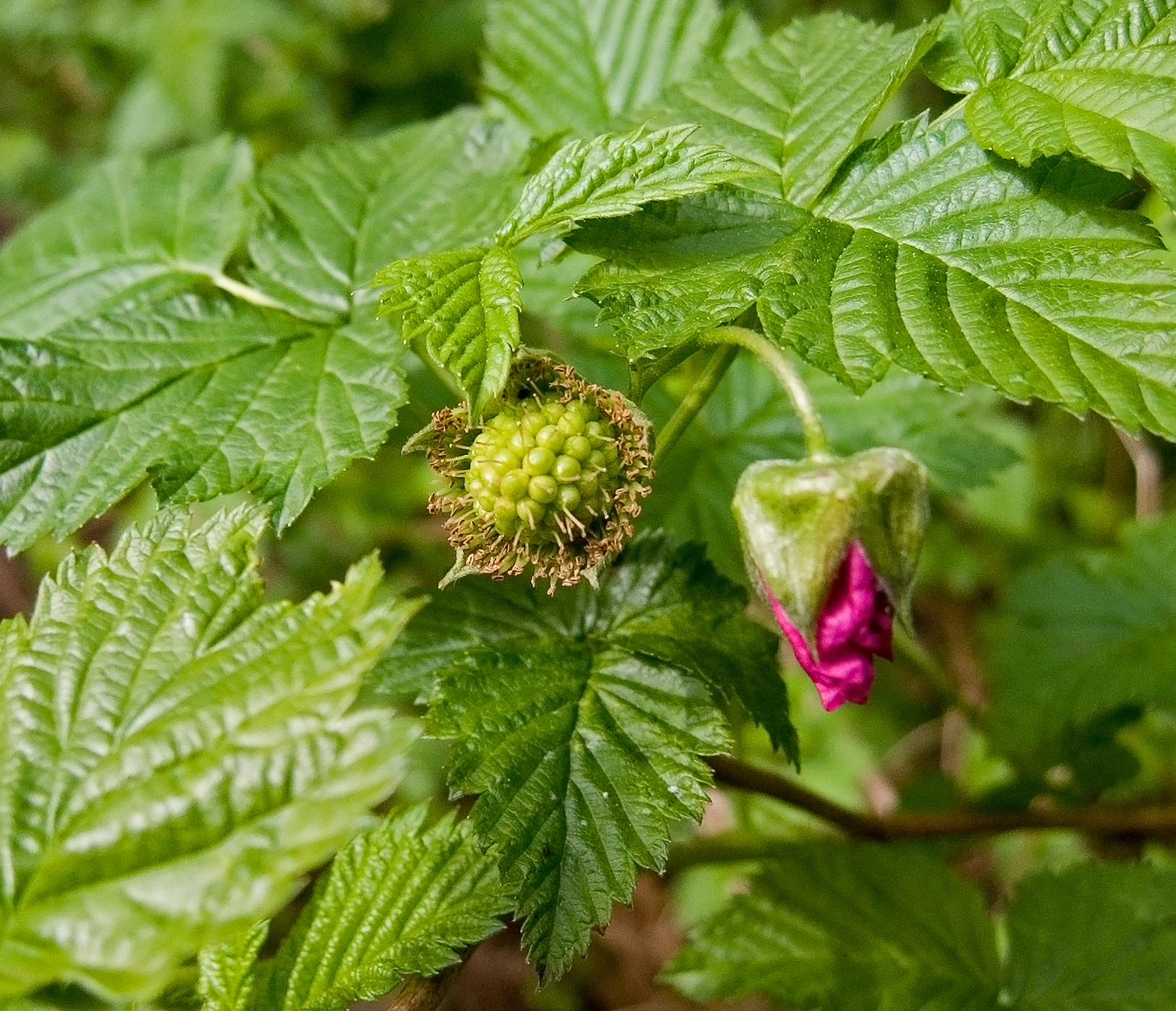 Salmonberry (Rubus spectabilis) growing in abundance in the forest of Meadowdale Park, north of Seattle, USA.